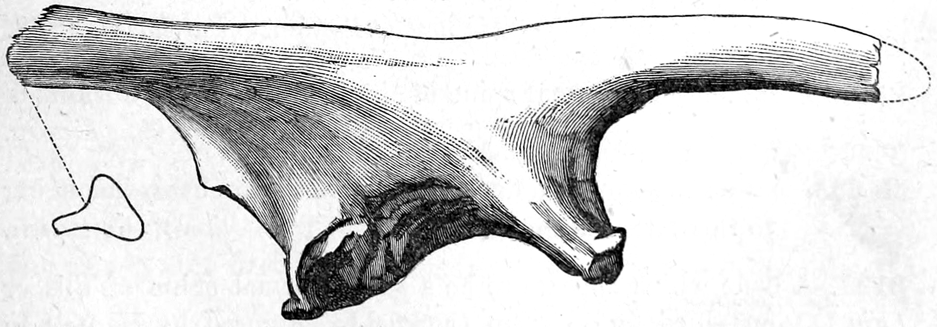 Valdosaurus sp. ilia from Upper Tunbridge Wells Sandstone of Cuckfield.